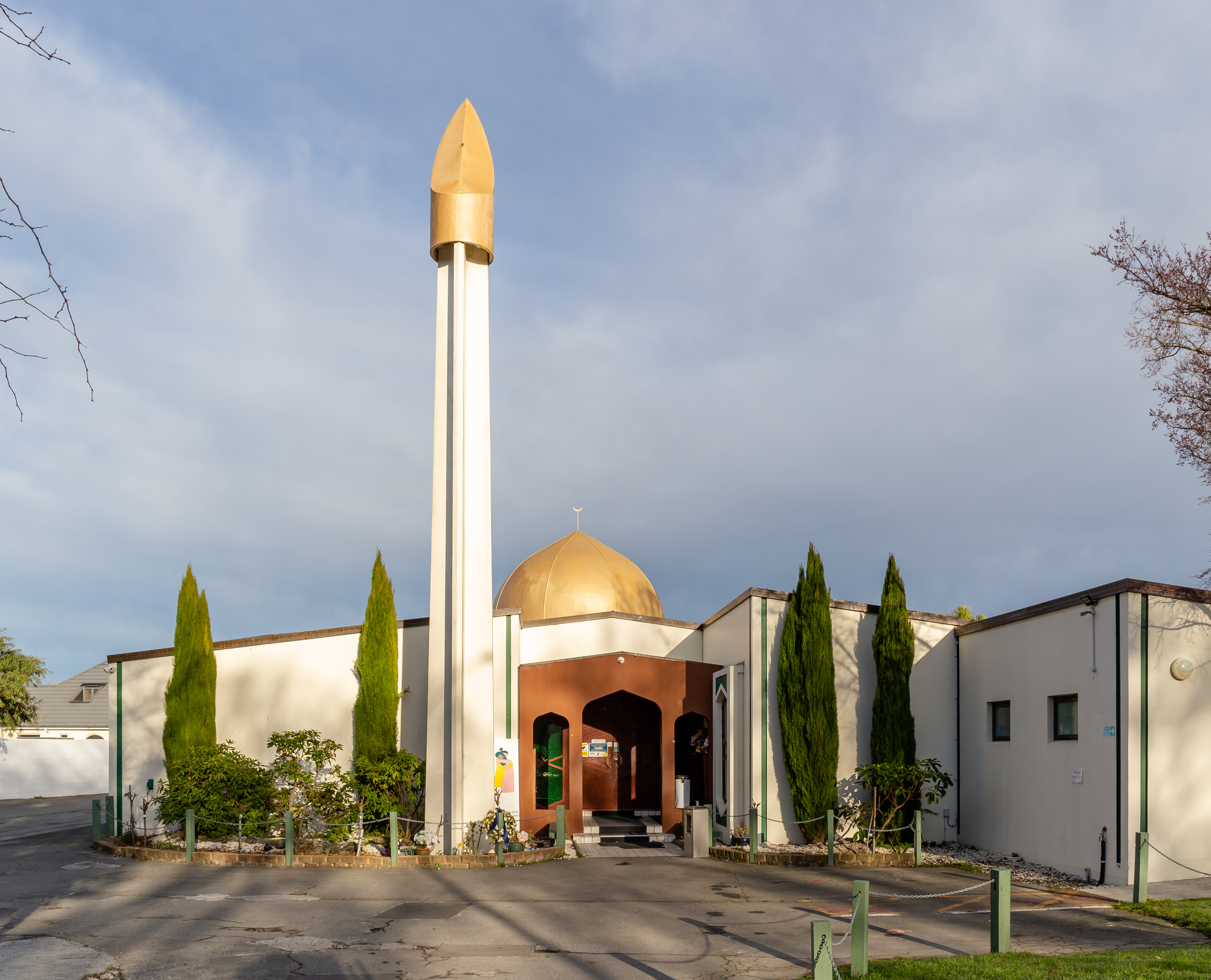 Christchurch Mosque (Al Noor Mosque (Arabic: مسجد النور, Masjid al-Noor)), Christchurch, New Zealand